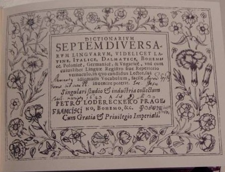 Petrus Lodereckerus. Dictionarium septem diversarum linguarum, Videlecit Latine, Italice, Dalmatice, Bohemice, Polonice, Germanice et Ungarice, Prague 1605